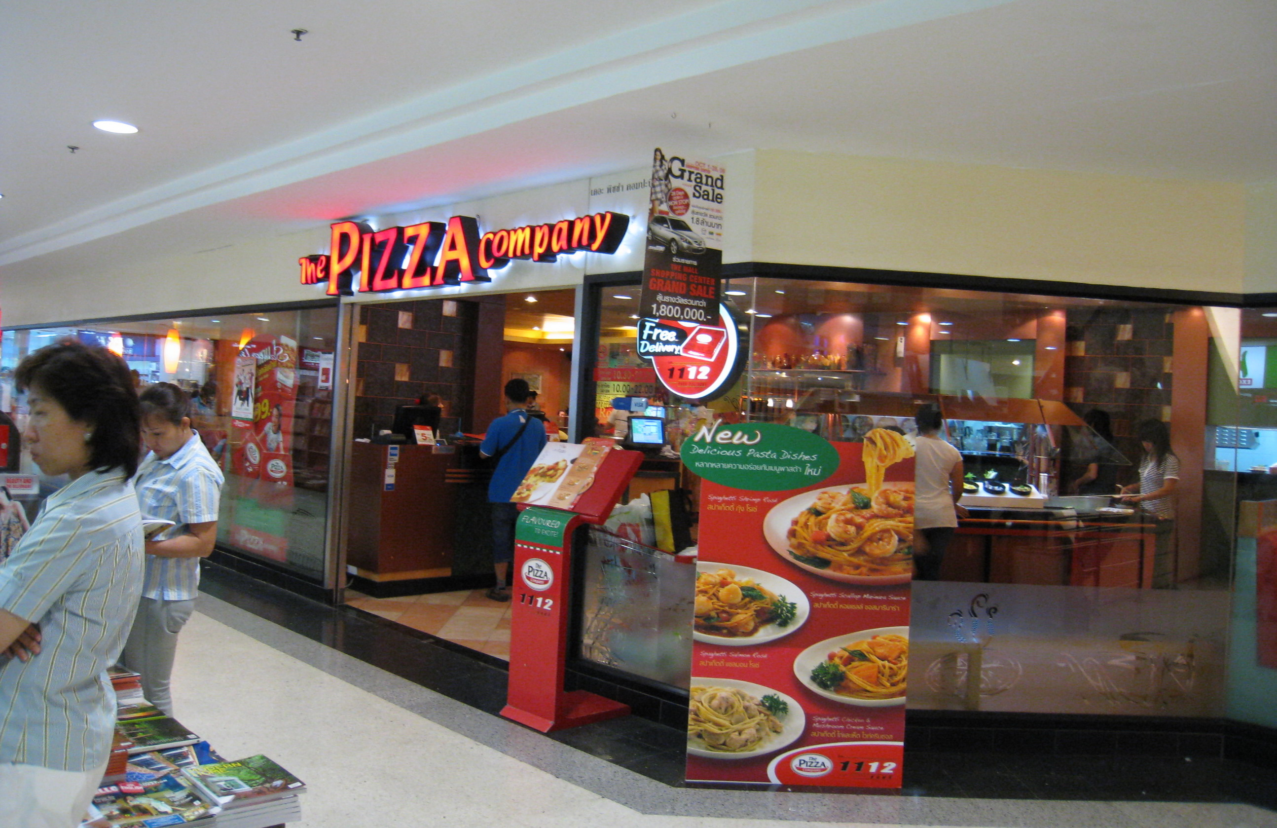 The Pizza Company at The Mall Tha-pra